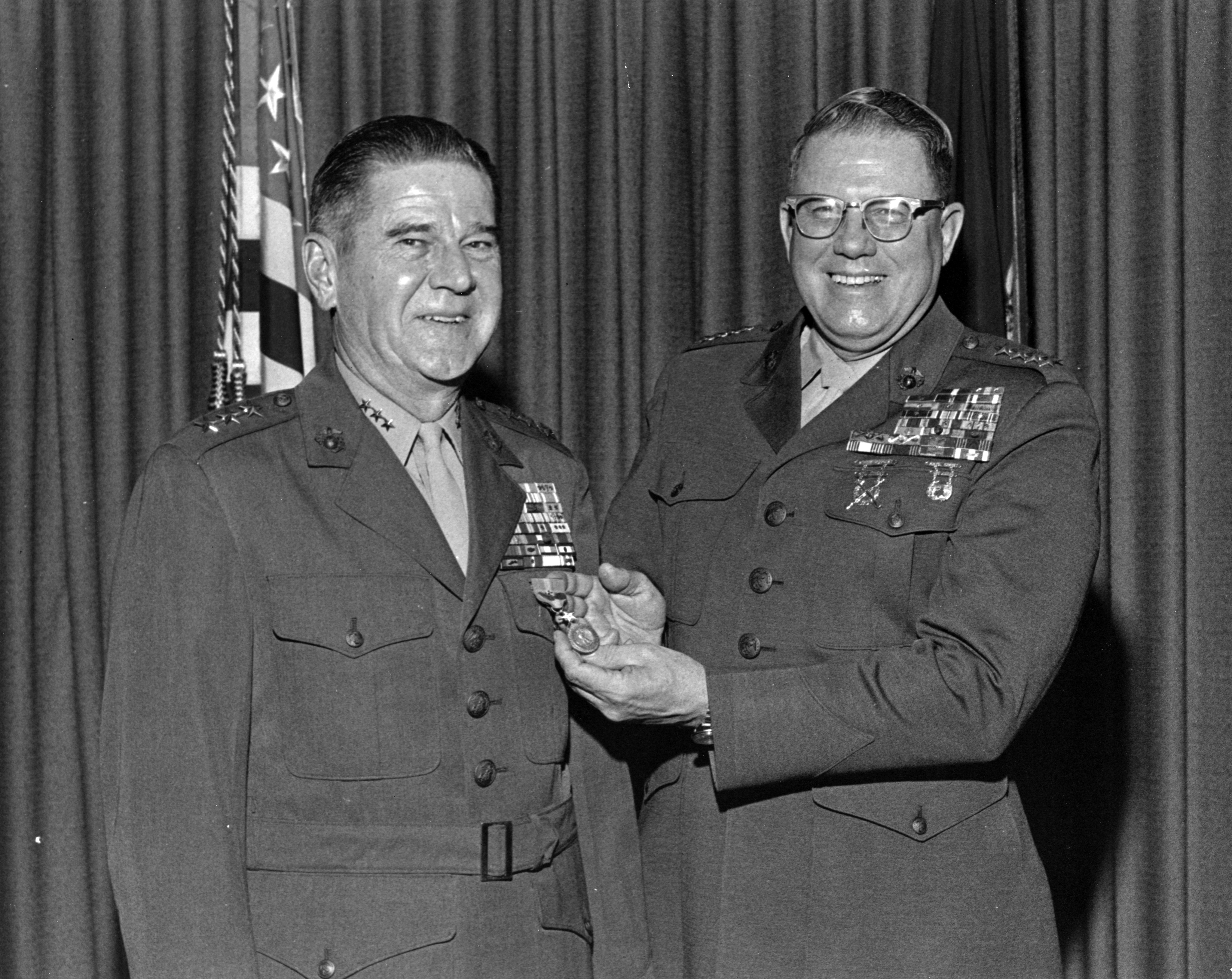 General Robert E. Cushman Jr., Commandant of the Marine Corps, presents Navy Distinguished Service Medal to lieutenant general Leo J. Dulacki (in lieu of second award), for exceptionally meritorious service to the Government of the United States in position of great responsibility as the Commanding general, Fourth Marine Division, from July 1970 to March 1973, and as Deputy Chief of Staff for Manpower, from May 1973 through December 1973, during Award and Retirement ceremonies held at Headquarters Marine Corps in Washington, D.C.